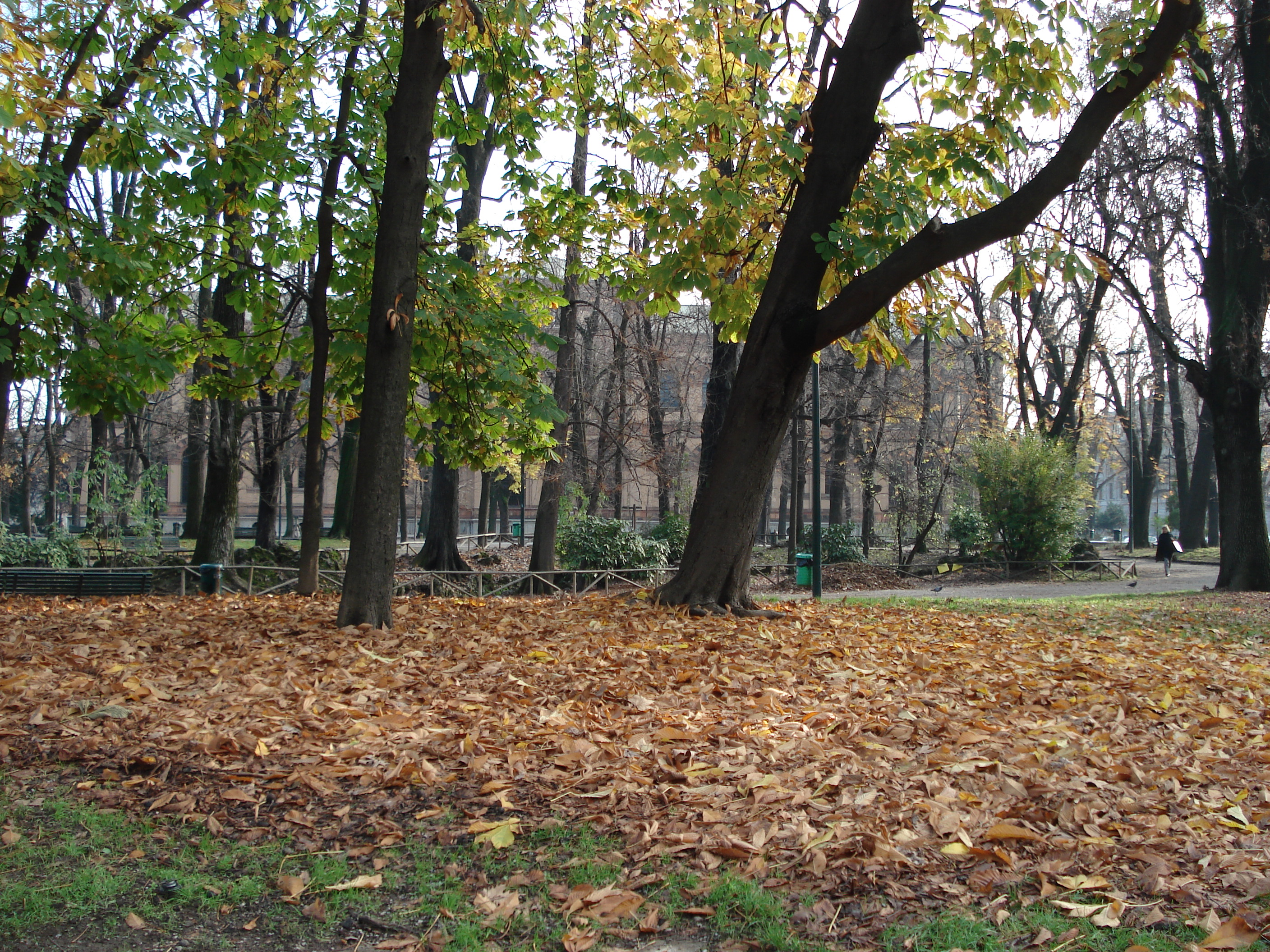 "Giardini pubblici di Porta Venezia" (the most ancient city park), in Milan, Italy. Picture by Giovanni Dall'Orto, december 20 2006.